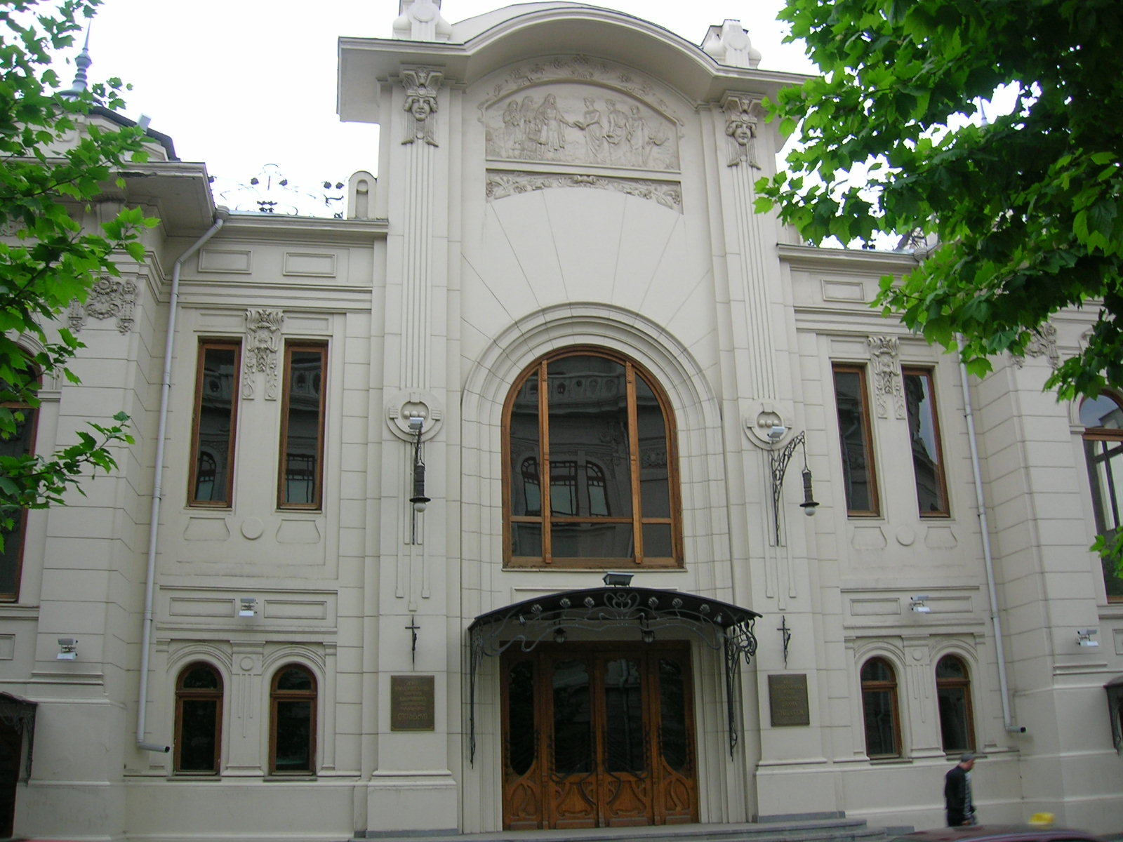 Facade of Mardjanishvili Theatre building, Tbilisi, Georgia